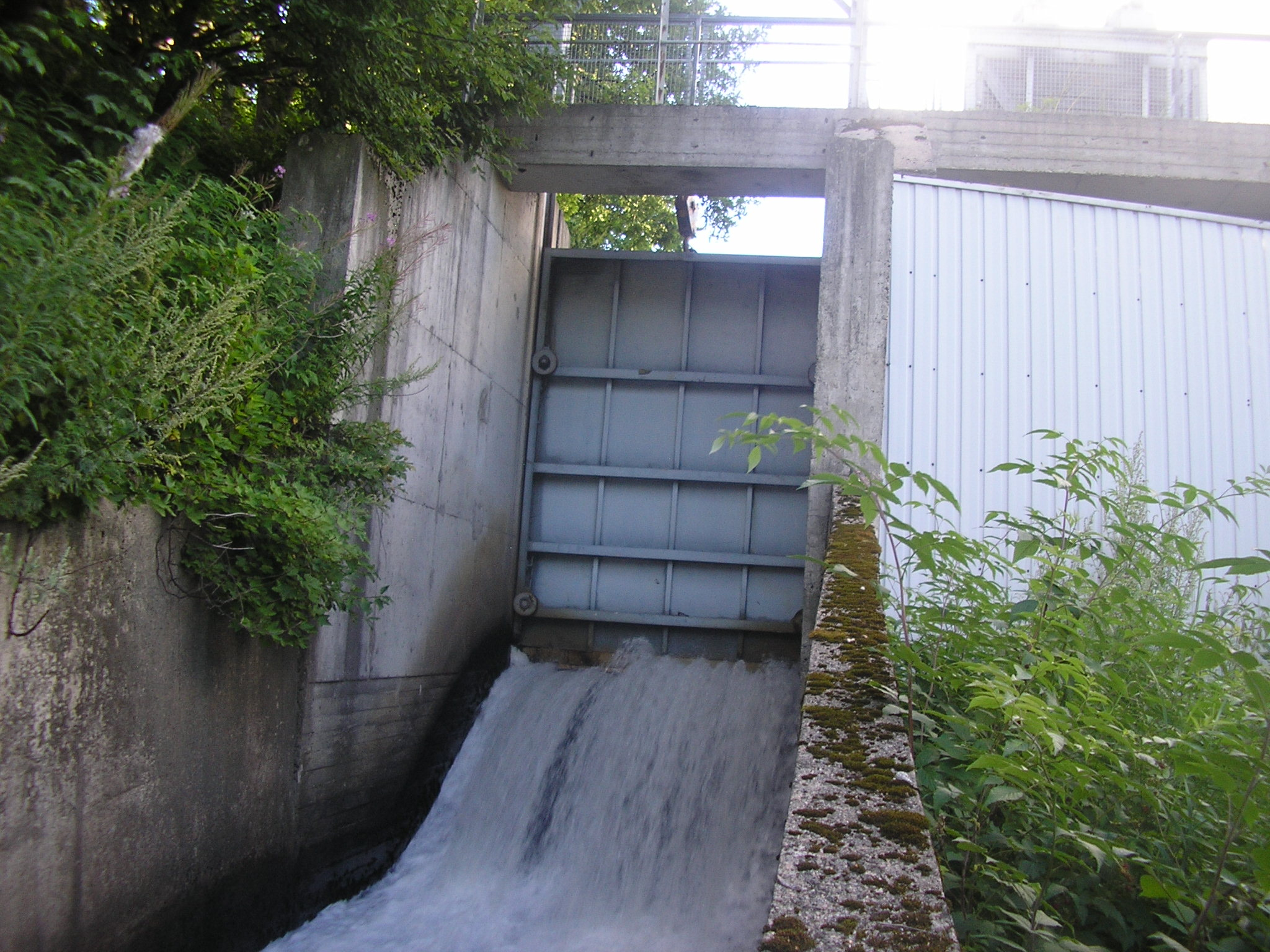 Tourujoki hydroelectric power plant in Jyväskylä, Finland